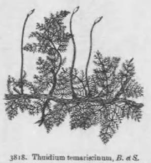 Thuidium tamariscinum